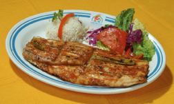 grilled fish